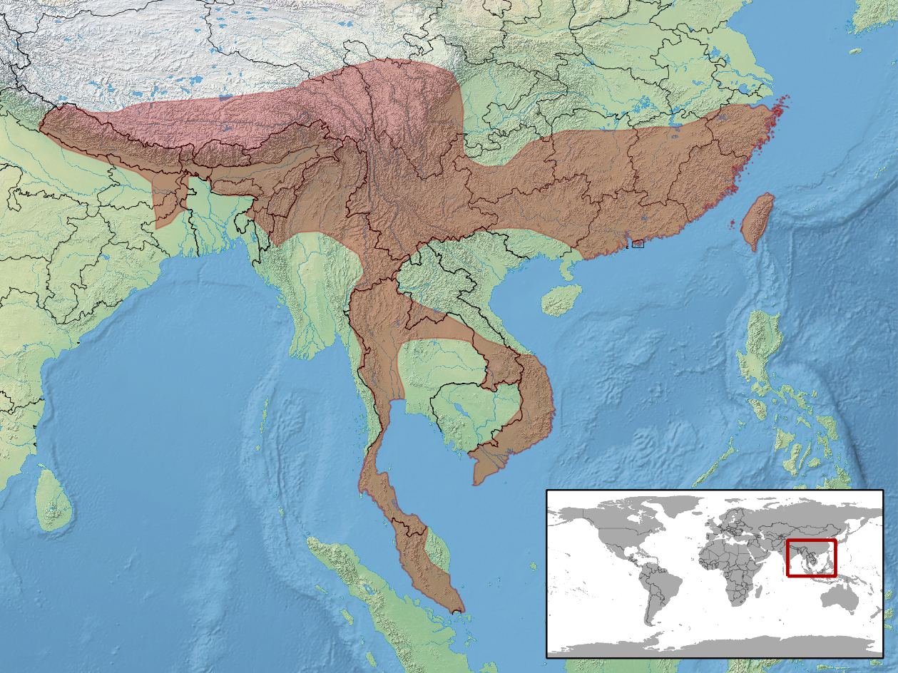 geographic distribution of Ovophis monticola (Native: Bangladesh; China; Hong Kong; India; Indonesia (Sumatera); Lao People's Democratic Republic; Malaysia; Myanmar; Nepal; Taiwan, Province of China; Thailand; Viet Nam)